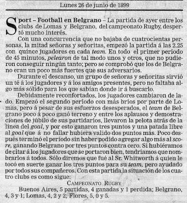 Chronicle of the match between Argentine rugby teams Belgrano AC and Lomas AC, published by La Nación newspaper in 1899. That match was part of the first rugby union championship in Argentina (current "Torneo de la URBA") with only 4 teams contesting the tournament. Lomas would be the champion at the end of the season.